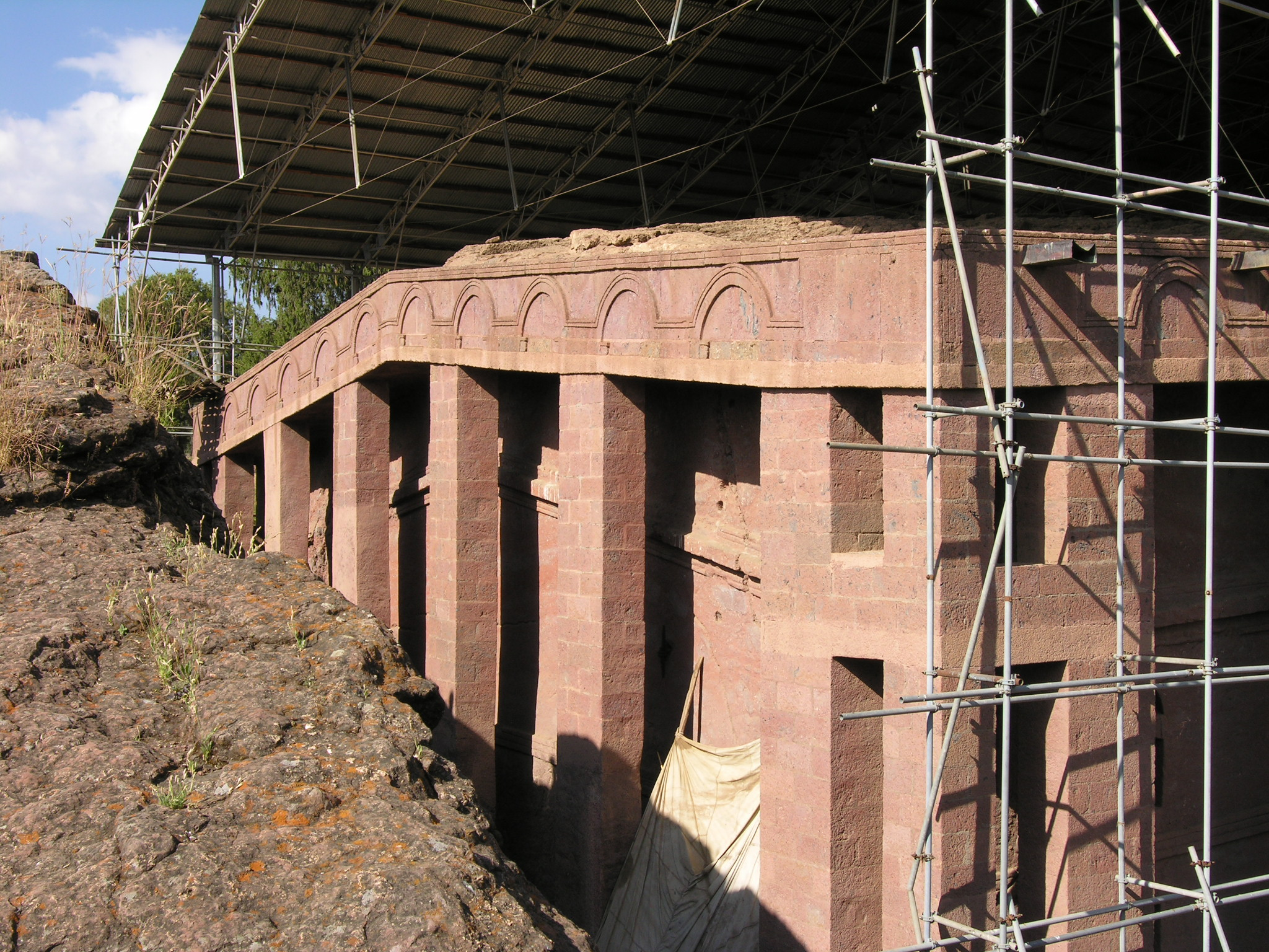 Rock-Hewn Churches, Lalibela (Ethiopia)